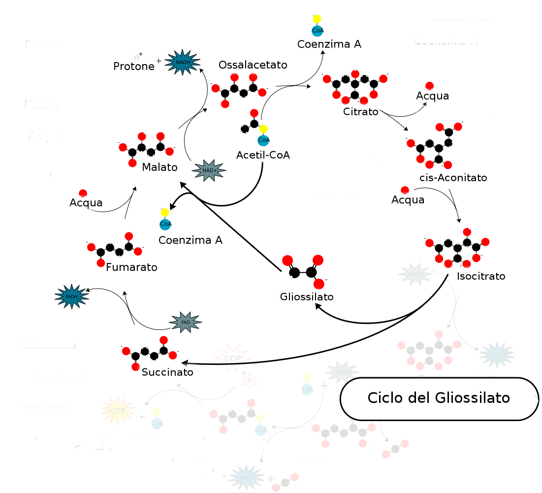 Italian-speaking overview of the Glyoxylate Cycle. Original work by Mike Jones, for Wikipedia